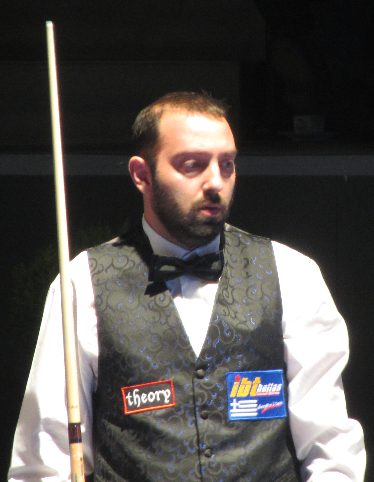 Portrait of German Christian Rudolph at the 2013 European Championship in Brandenburg/Havel, Germany. Cropped from Carom_Billiards_EC_Brandenburg_Havel-GER_2013-04-20_37-Polychronopoulos.jpg